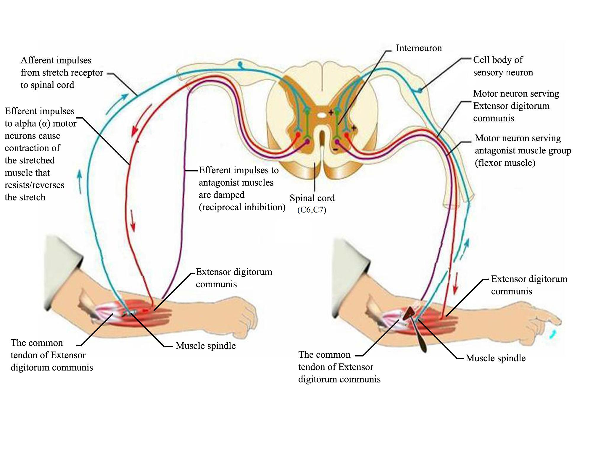 Eextensor digitorum reflex is basically an example of monosynaptic as same as biceps reflex and brachioradialis reflex. Extensor digitoium reflex arc involves-receptor (muscle spindle in extensor digitoium), afferent (Iα fiber), center (Spinal cord C6, C7), efferent (alpha motor neurons), effector organ (skeletal muscle---extensor digitoium), while dynamic stretch reflexes of biceps reflex and brachioradialis reflex involving the spinal segment C5,C6.